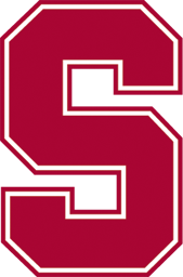 Stanford University plain block "S" logo